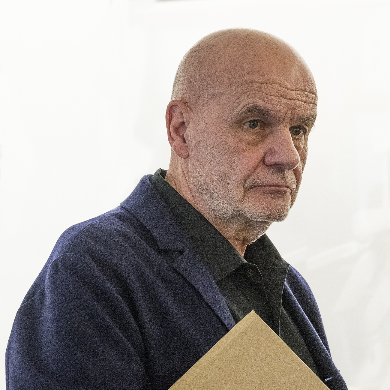 Günter Umberg, painter